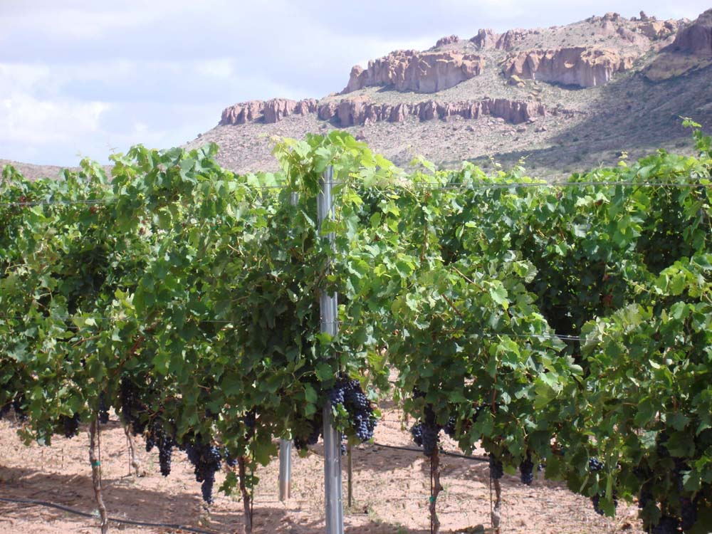 Southern New Mexico Wine Country